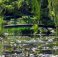 Japanese footbridge, Monet's garden at Giverny, May 2002